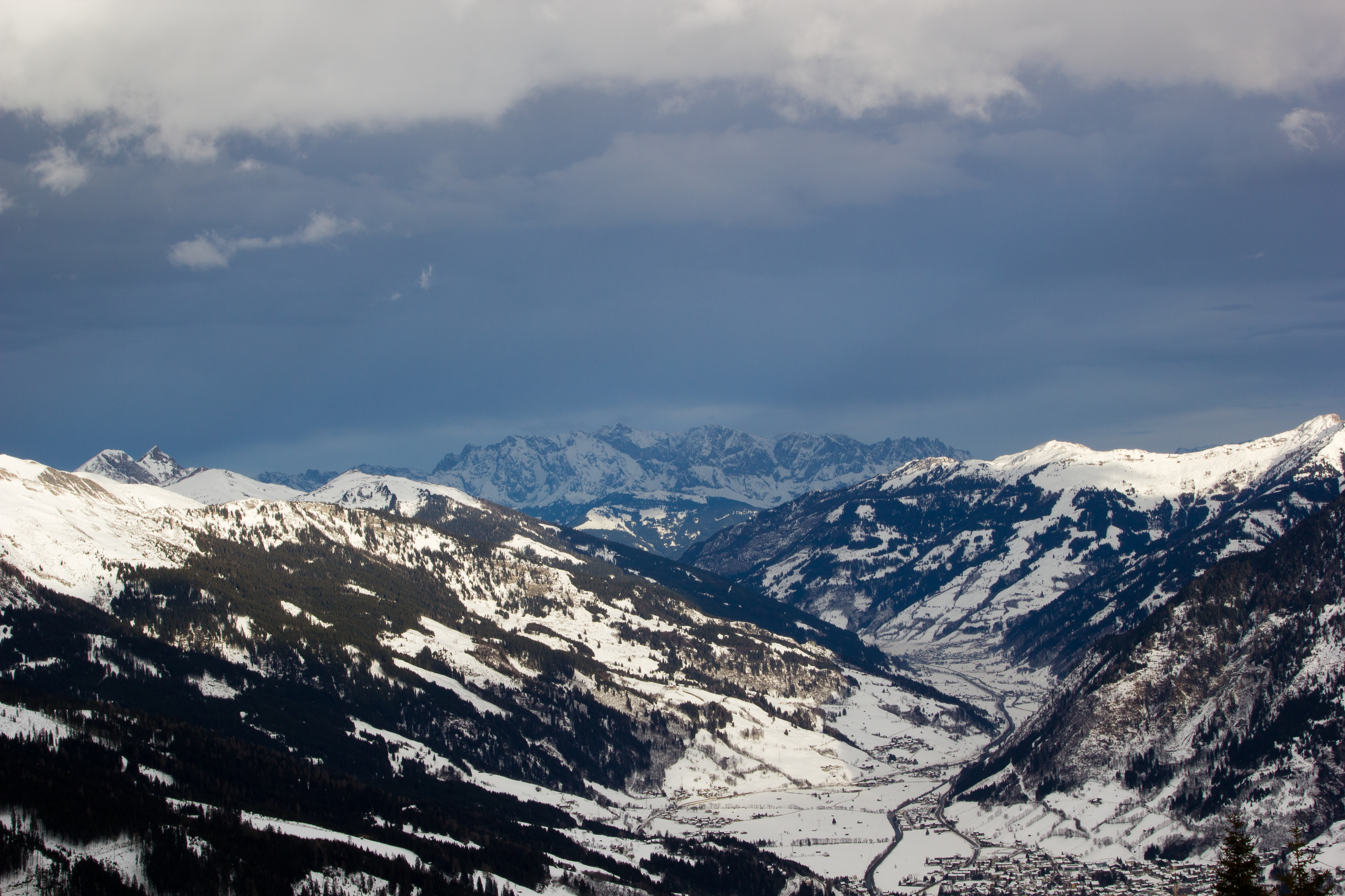 Austria valley with Badgastein Mine.